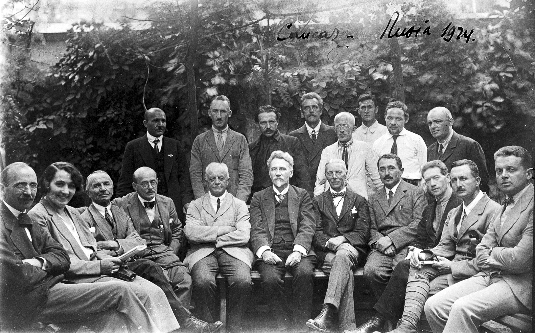 Malaria Commission of the League of Nations. Photograph, 1928. Image reads "1924". People in the image not identified in original upload. This article on the subject states that Upon its creation, the Malaria Commission comprised six members of the Health Commission (A. Lutrario, Rome; B. Nocht, Hamburg; G. Pittaluga, Madrid; D. Ottolenghi, Bologna; L. Raynaud, Algiers; L. Bernard, Paris), two experts (Colonel S. P. James, London and E. Marchoux, Paris) and seven correspondents (N. H. Swellengrebel, Amsterdam; L. Anigstein, Warsaw; M. Ciuca, Jassy; E. Marcinovski, Moscow; K. Markoff, Sofia; C. Moutoussis, Athens and H. Labranca, Rome). It is likely most of these people are in the image. (see also this report)